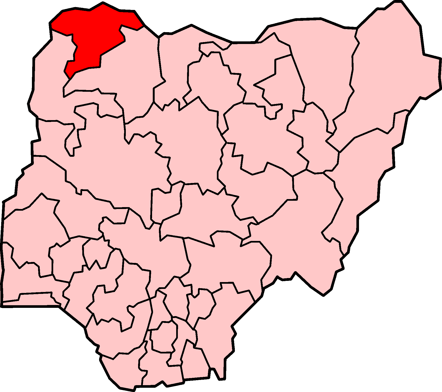 Locator map for Sokoto state, within Nigeria